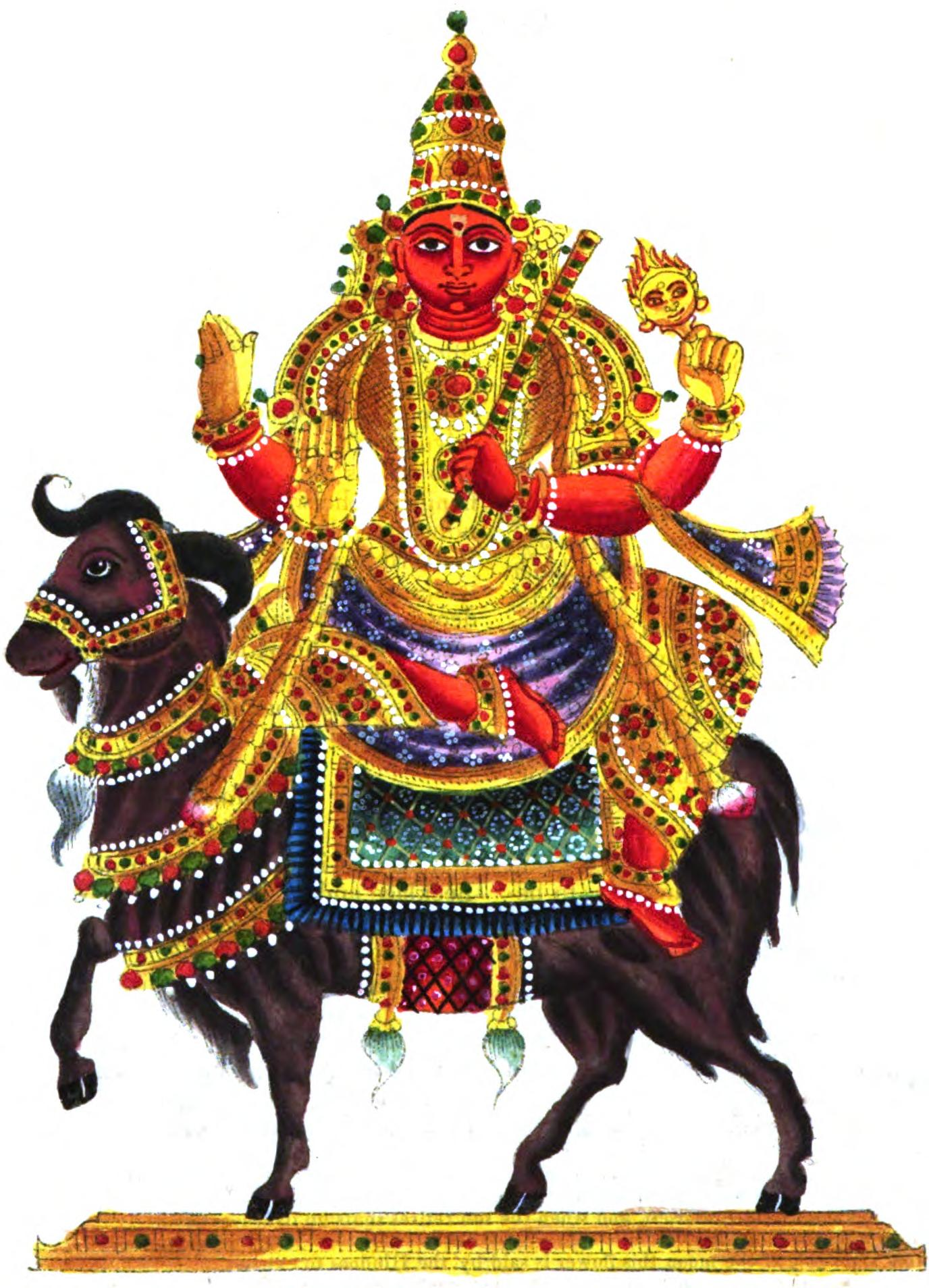 mangala